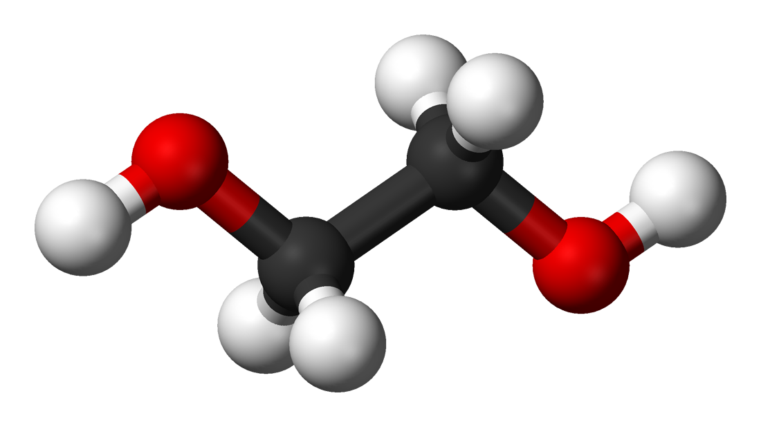 Ball-and-stick model of the ethylene glycol molecule Colour code: Carbon, C: black Hydrogen, H: white Oxygen, O: red